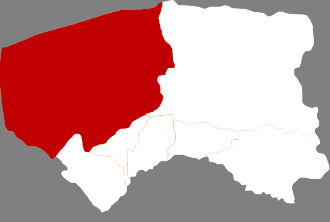 Locator map of Urat Rear Banner in Bayan Nur, Inner Mongolia, China